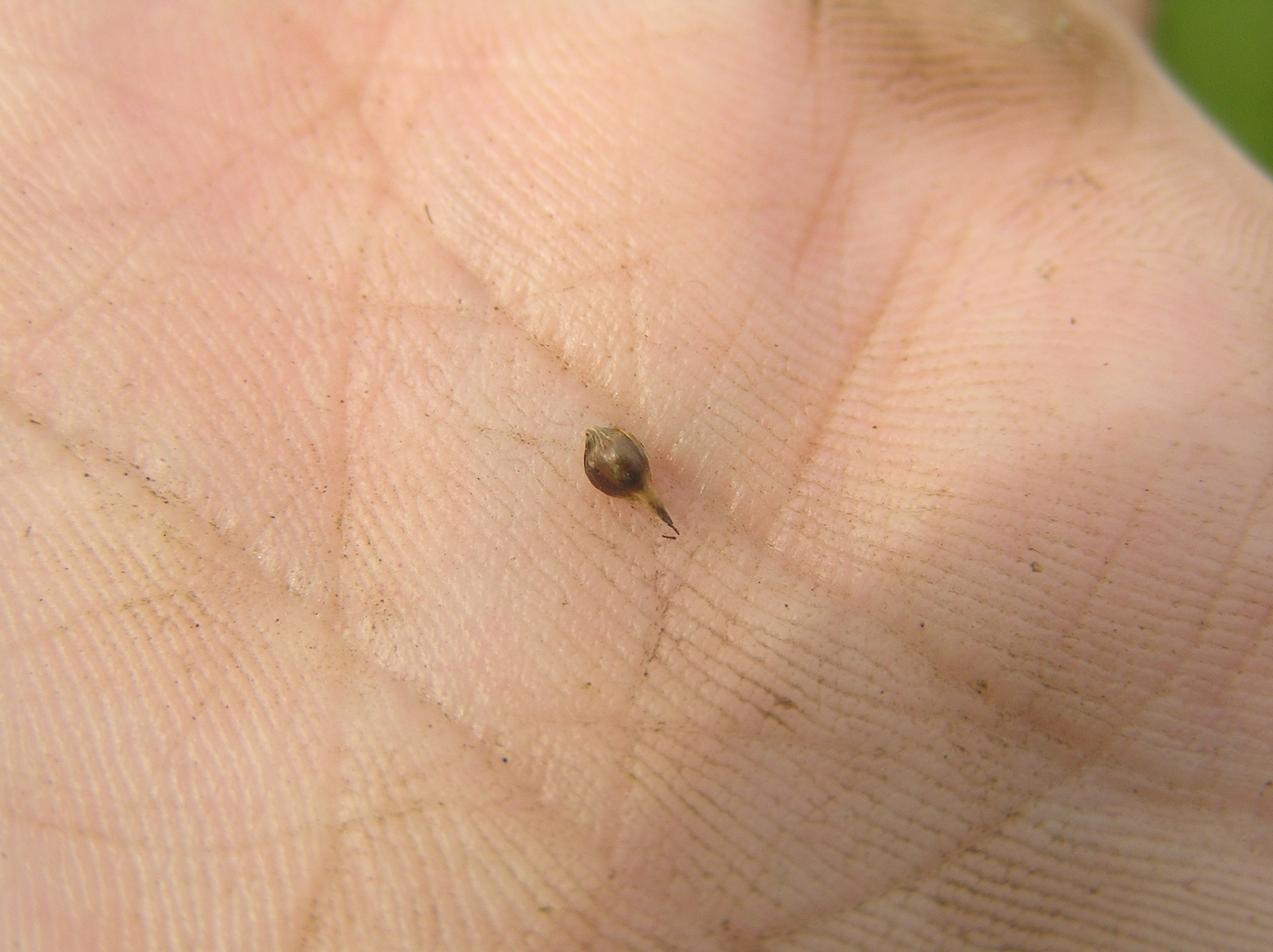 Carex appropinquata, near the pond Malý Karlov, Eastern Bohemia, Czech Republic